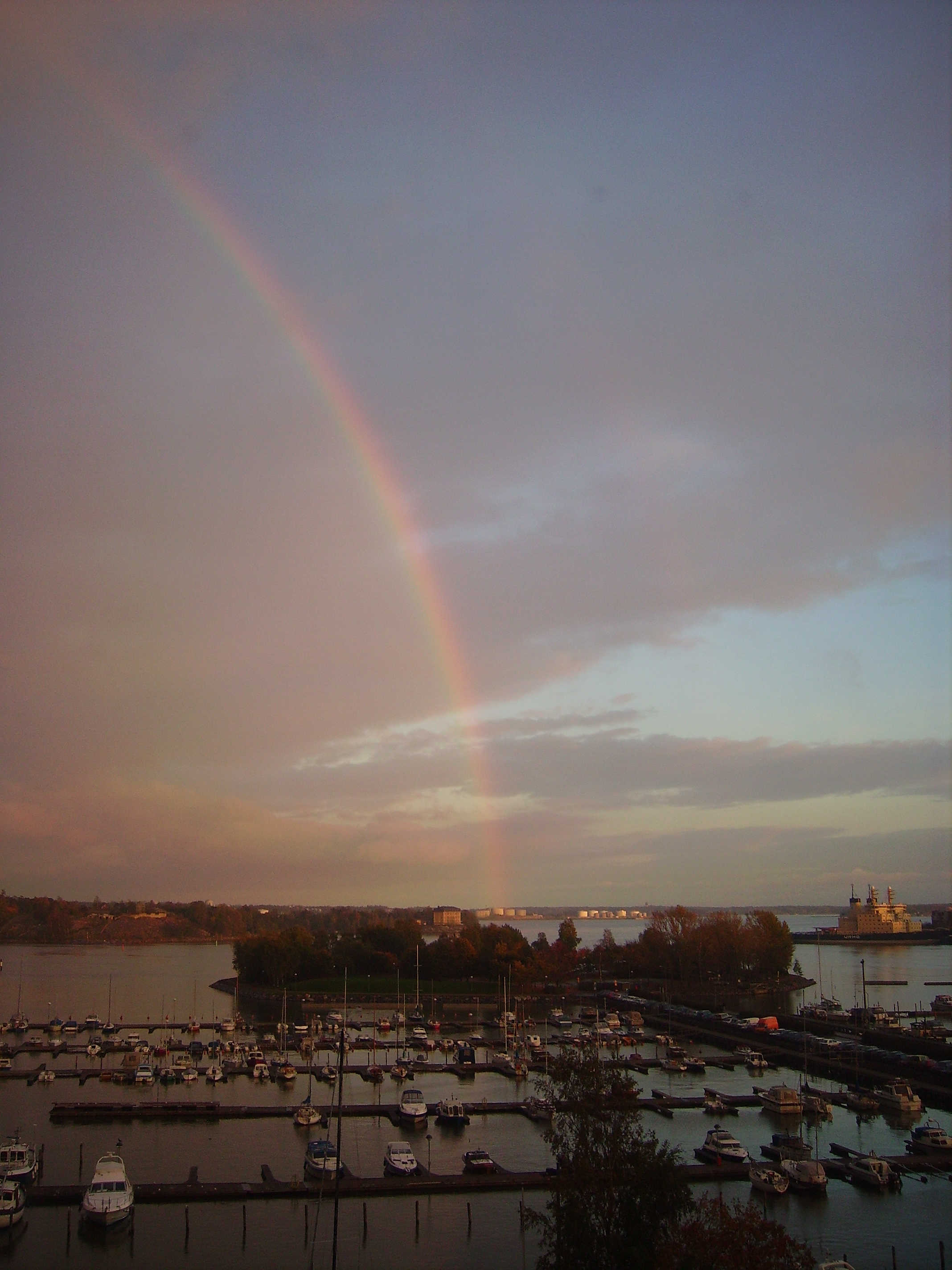 Gulf of Finland. Tervasaari island, Helsinki, Finland